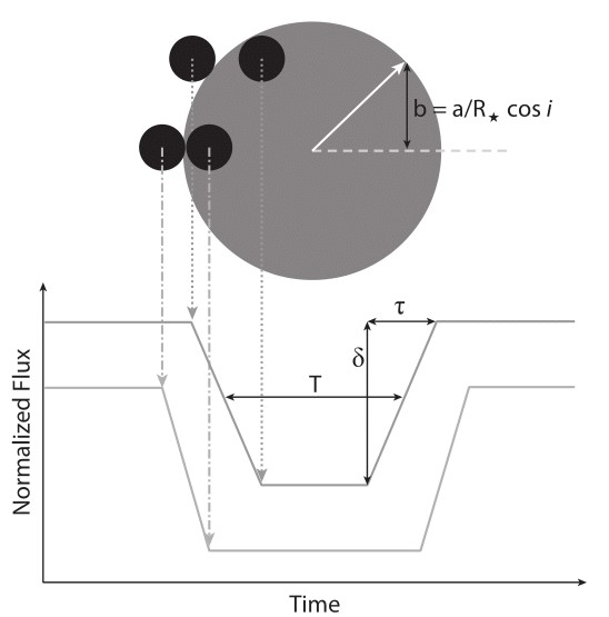 Theoretical transiting exoplanet light curve. This image shows the transit depth, transit duration, and ingress/egress duration of a transiting exoplanet relative to the position of the exoplanet to the star.